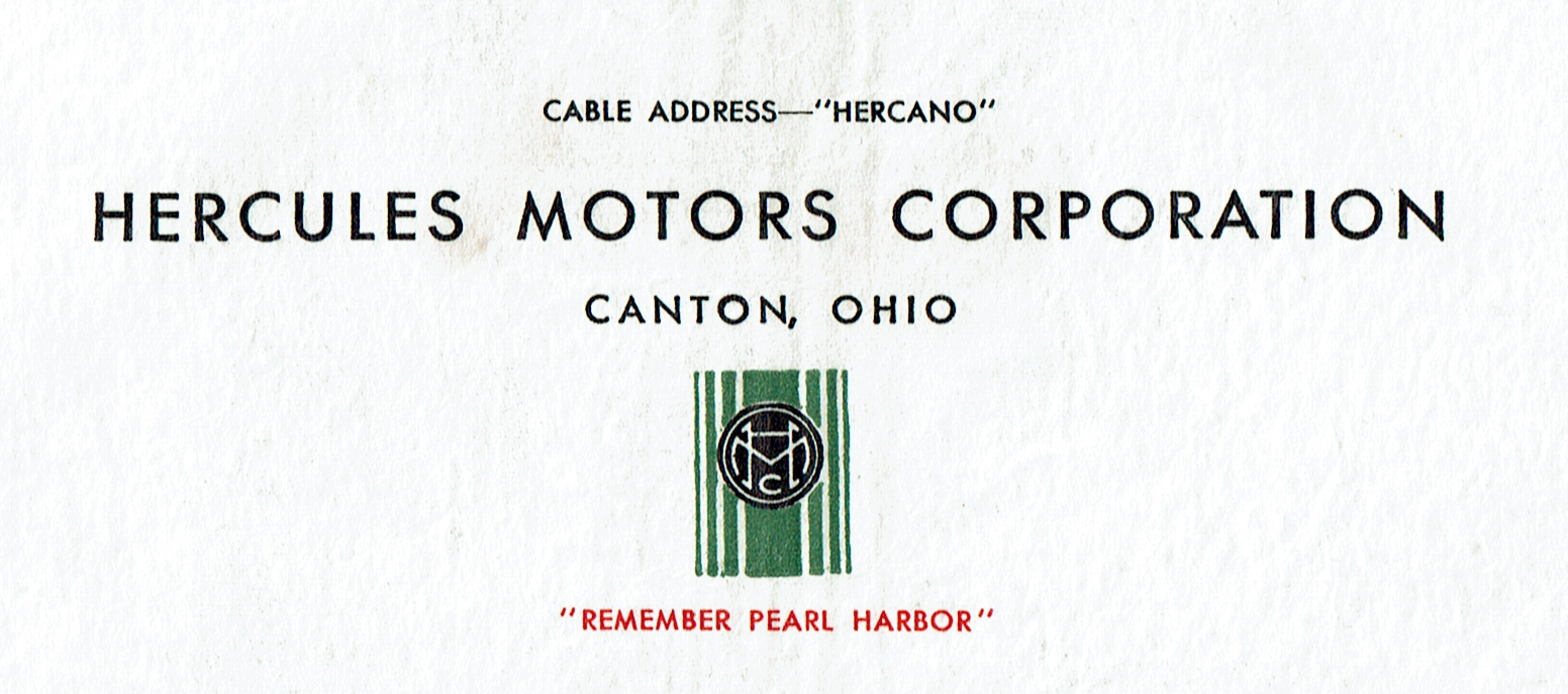 Logo of Hercules Motor Corporation in August 1943